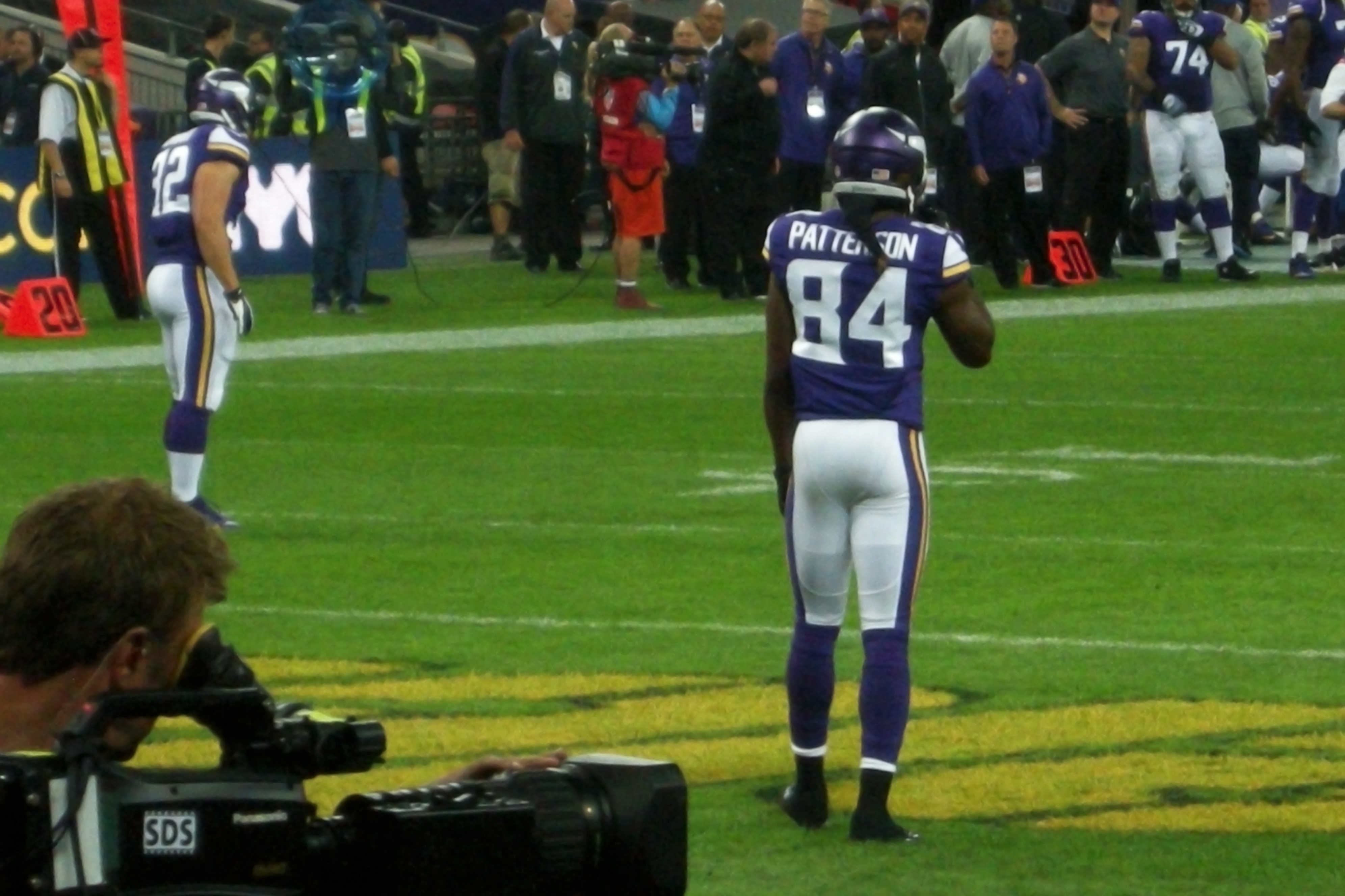 Minnesota Vikings WR/KR Cordarrelle Patterson.